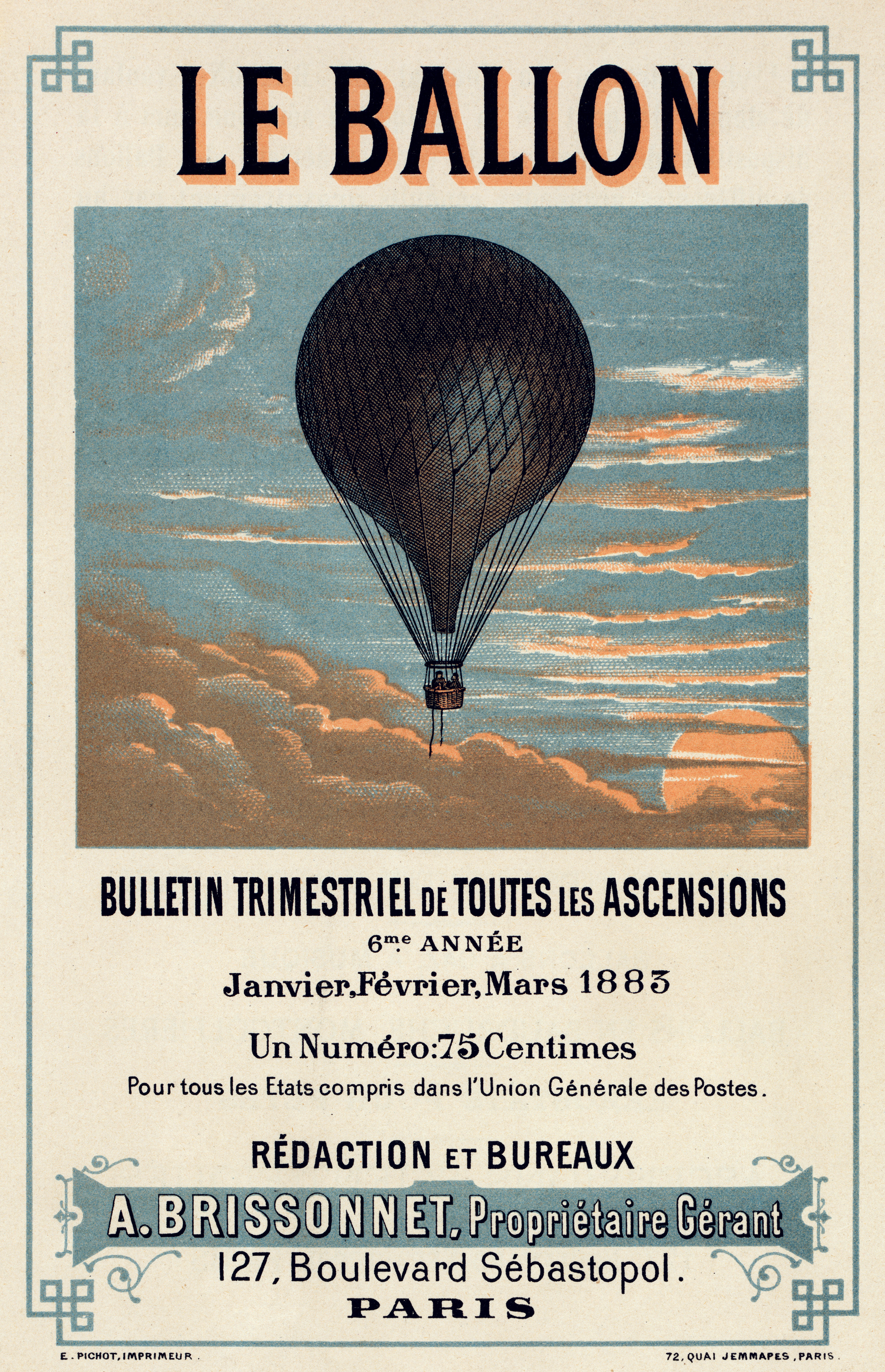 Le Ballon, bulletin trimestriel de toutes les ascensions; 6me année Janvier, Février, Mars 1883. Un numéro: 75 centimes. Pour tous les états compris dans l'Union Générale des Postes. Rédaction et bureaux A. Brissonnet, Propriétaire Gérant, 127, Bd. Sébastopol, Paris. Advertising for the French aeronautical journal "Le Ballon" shows a balloon carrying two passengers flying in the clouds Chromolithograph by E. Pichot, imprimeur, Paris, 1883. From the Tissandier Collection at the U.S. Library of Congress. More Tissandier Collection items | More advertising [PD] This picture is in the public domain.